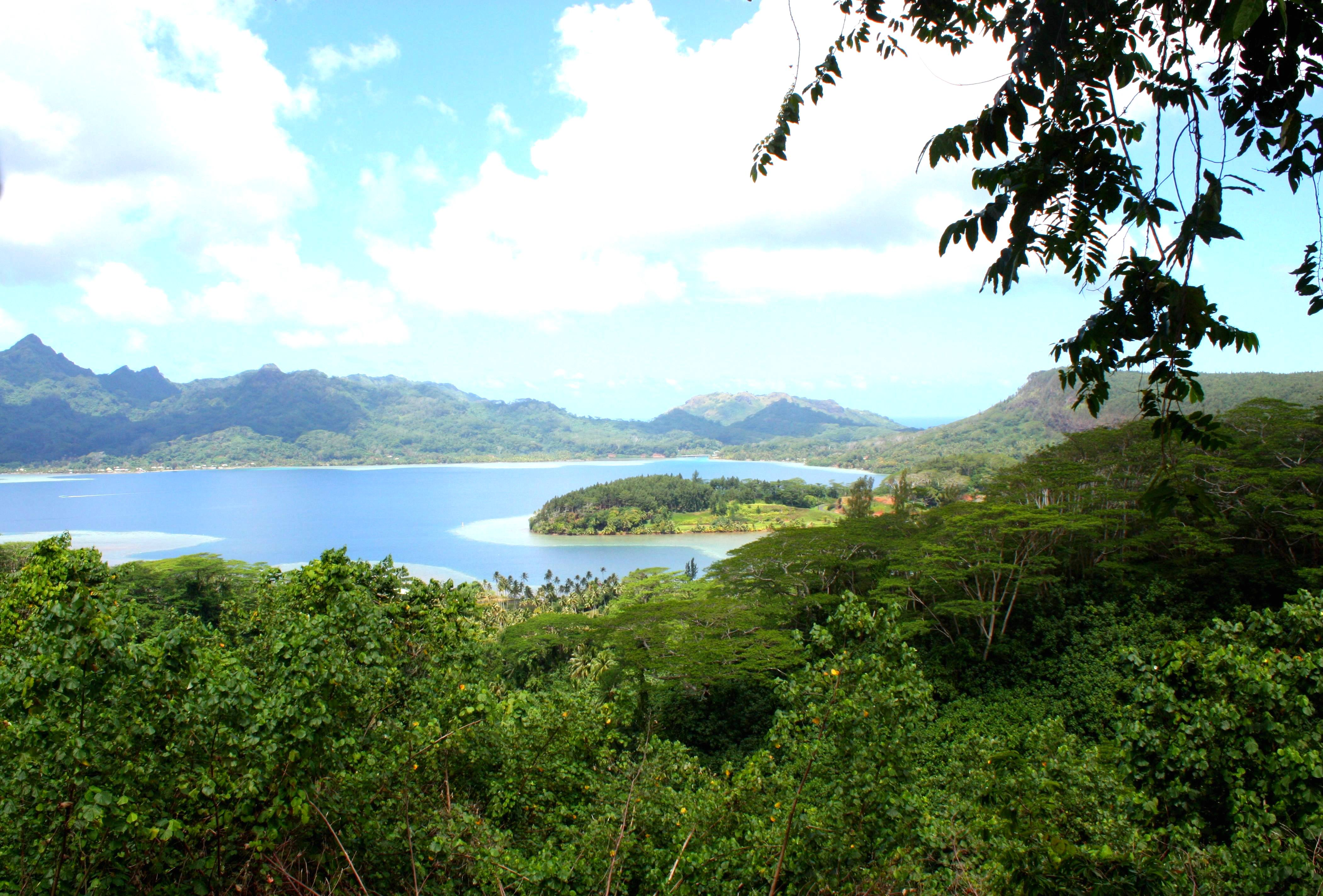 DSC0092/Huahiné Island/Maroé Bay view from belvedère